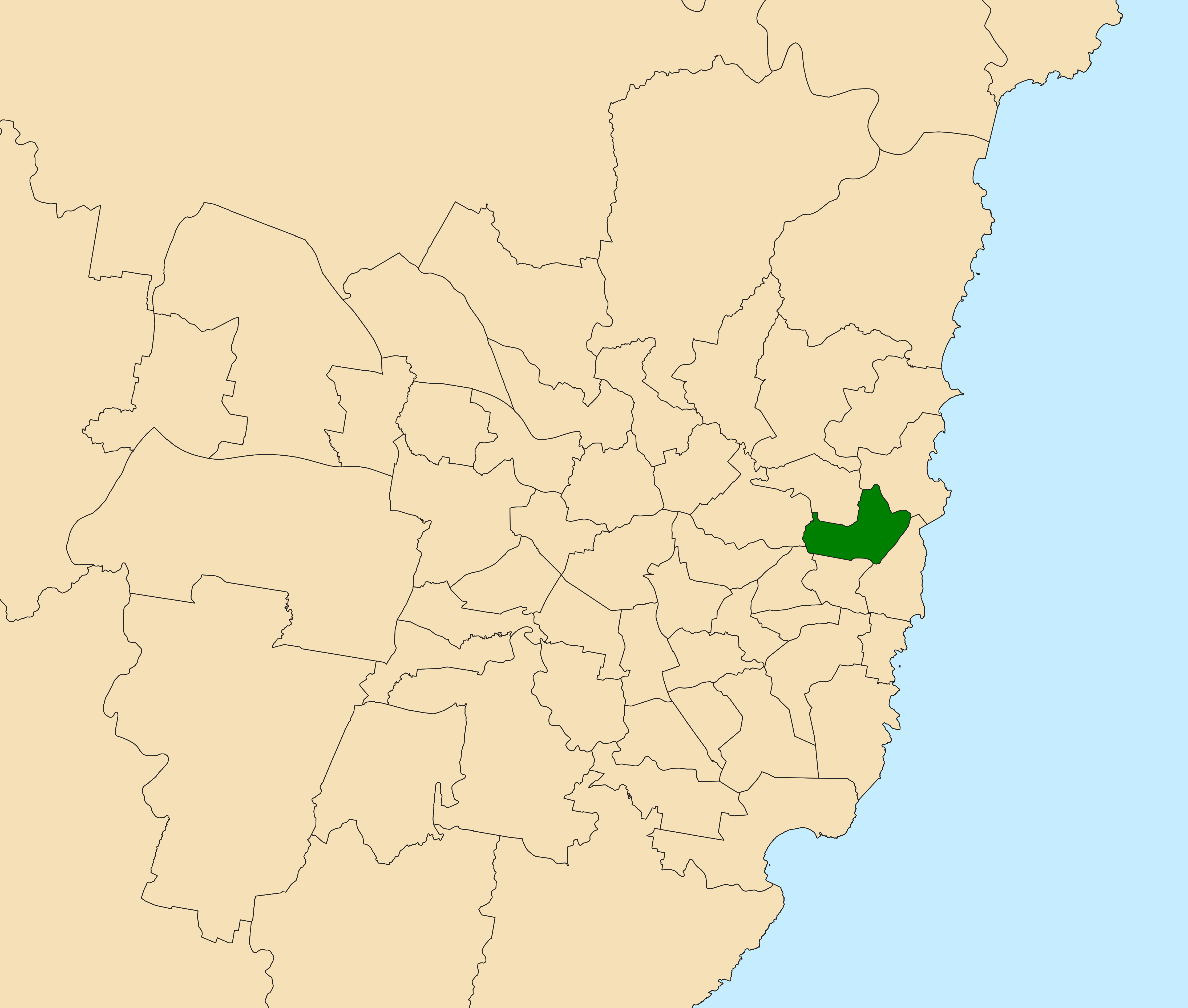 Location of the state electoral district of North Shore (dark green) in the metropolitan Sydney area as of the 2019 New South Wales state election. Incorporates or developed using Administrative Boundaries ©PSMA Australia Limited licensed by the Commonwealth of Australia under Creative Commons Attribution 4.0 International licence (CC BY 4.0).